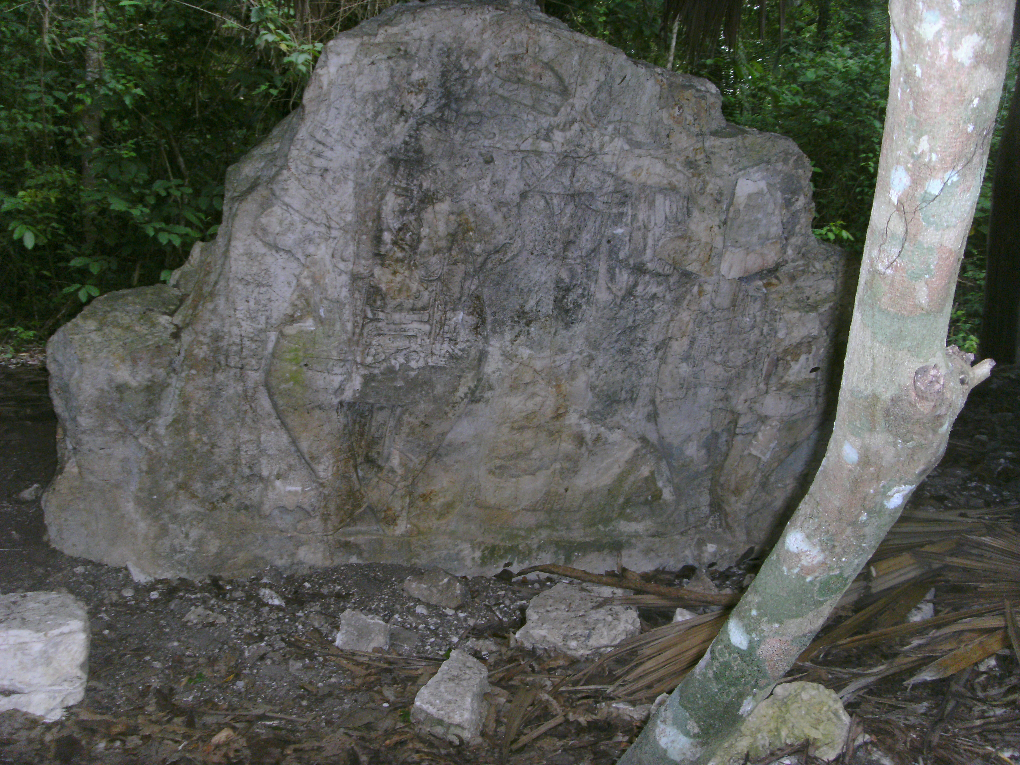 Estela en Motul